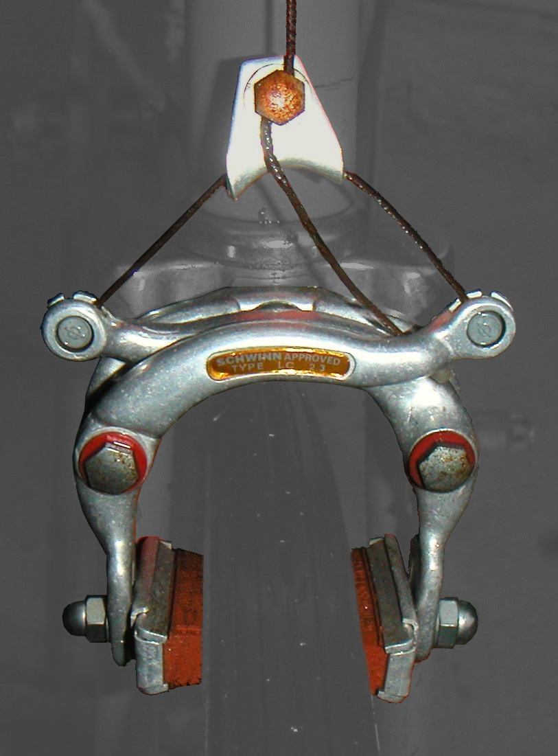 A bicycle "centre pull" brake. The background has been greyed out to emphasize the brake itself.